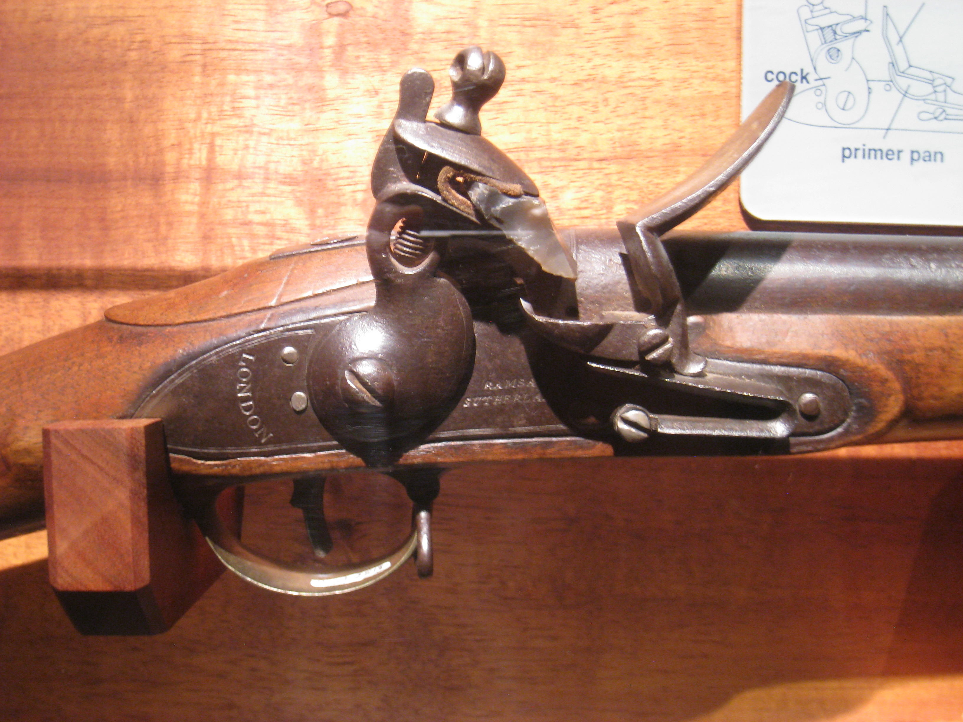 British "Brown Bess" flintlock musket - U.S. Army Museum of Hawaii, Honolulu, Hawaii, USA.